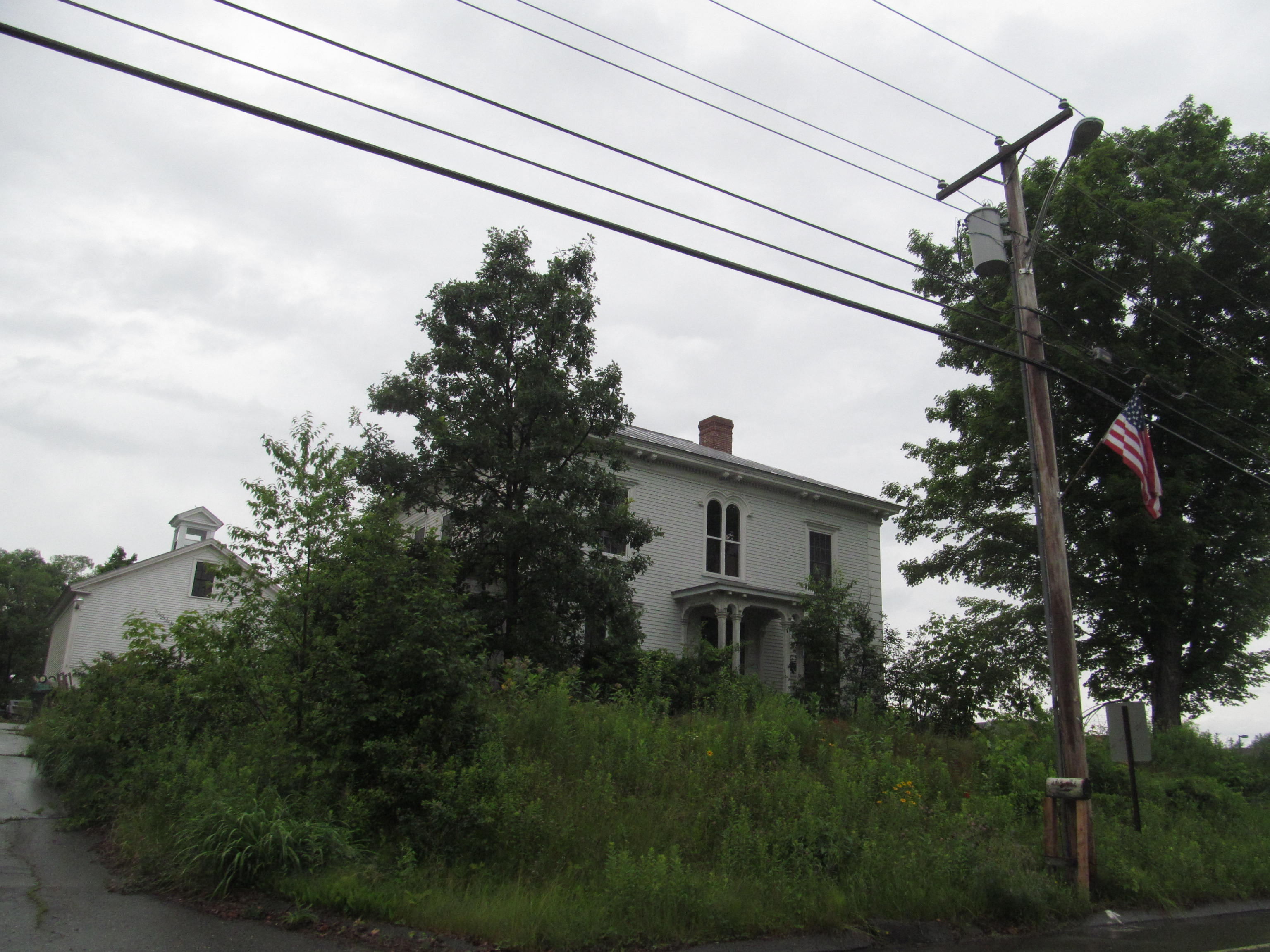 Steward-Emery House, Anson, Maine.